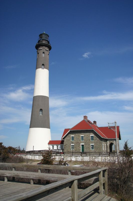 Fire Island Lighthouse